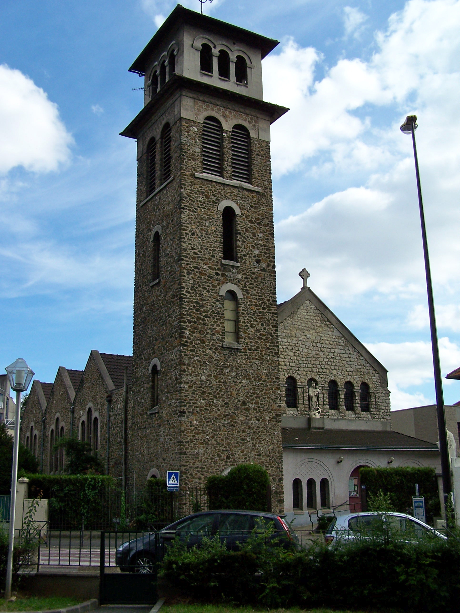 View of the church Notre-Dame-de-l'Espérance at Ivry-sur-Seine, France